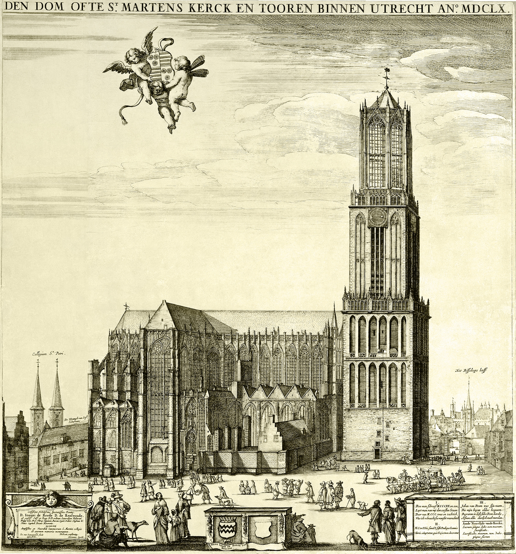 Dom cathedral of Utrecht, signed shortly before 1 August 1674 when a summer storm destroyed the nave.